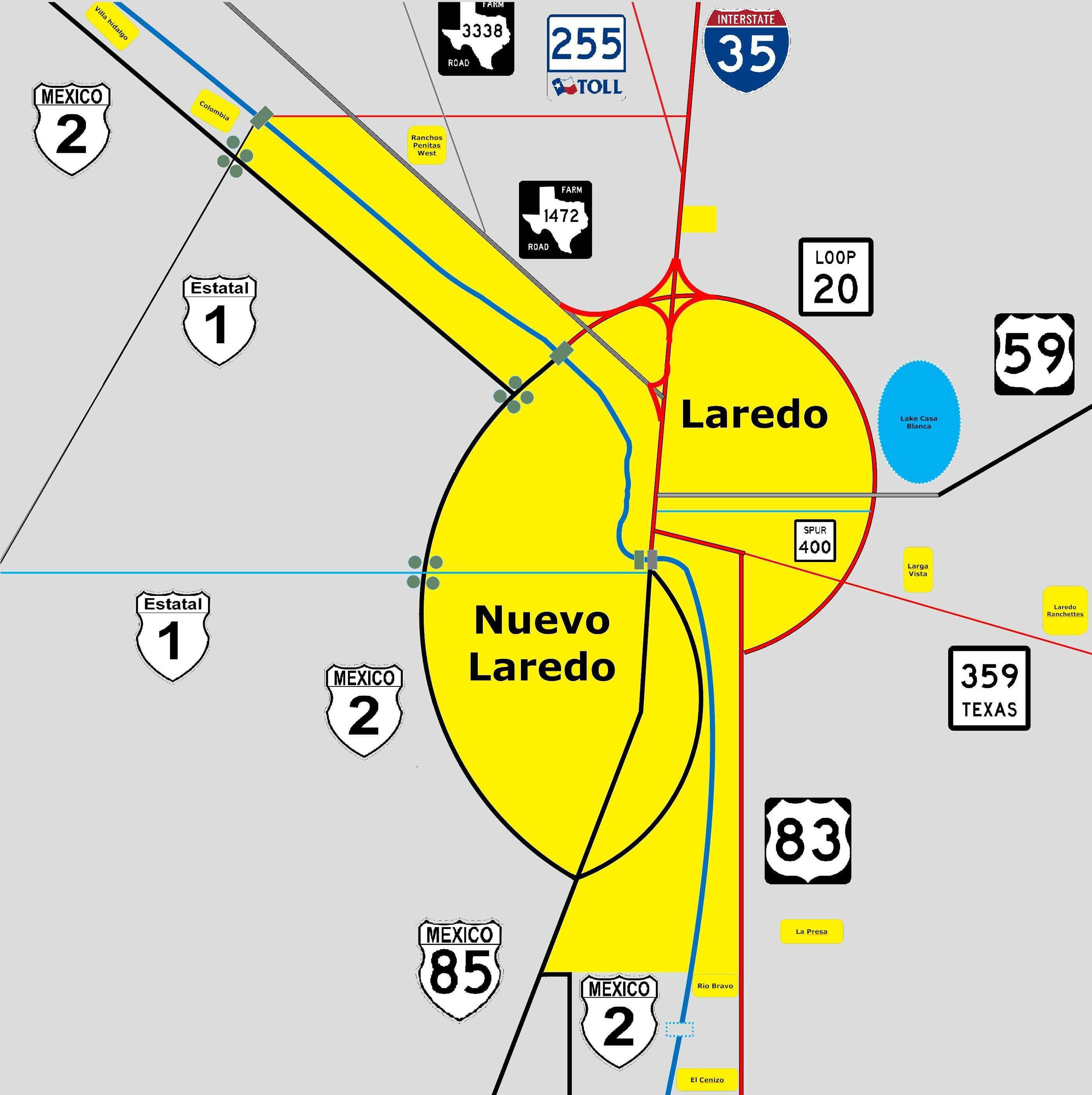 Highway map of Laredo-Nuevo Laredo Metropolitan Area